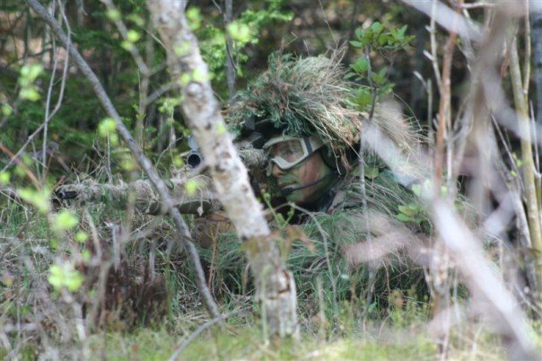 An airsoft player wearing a ghillie suit.